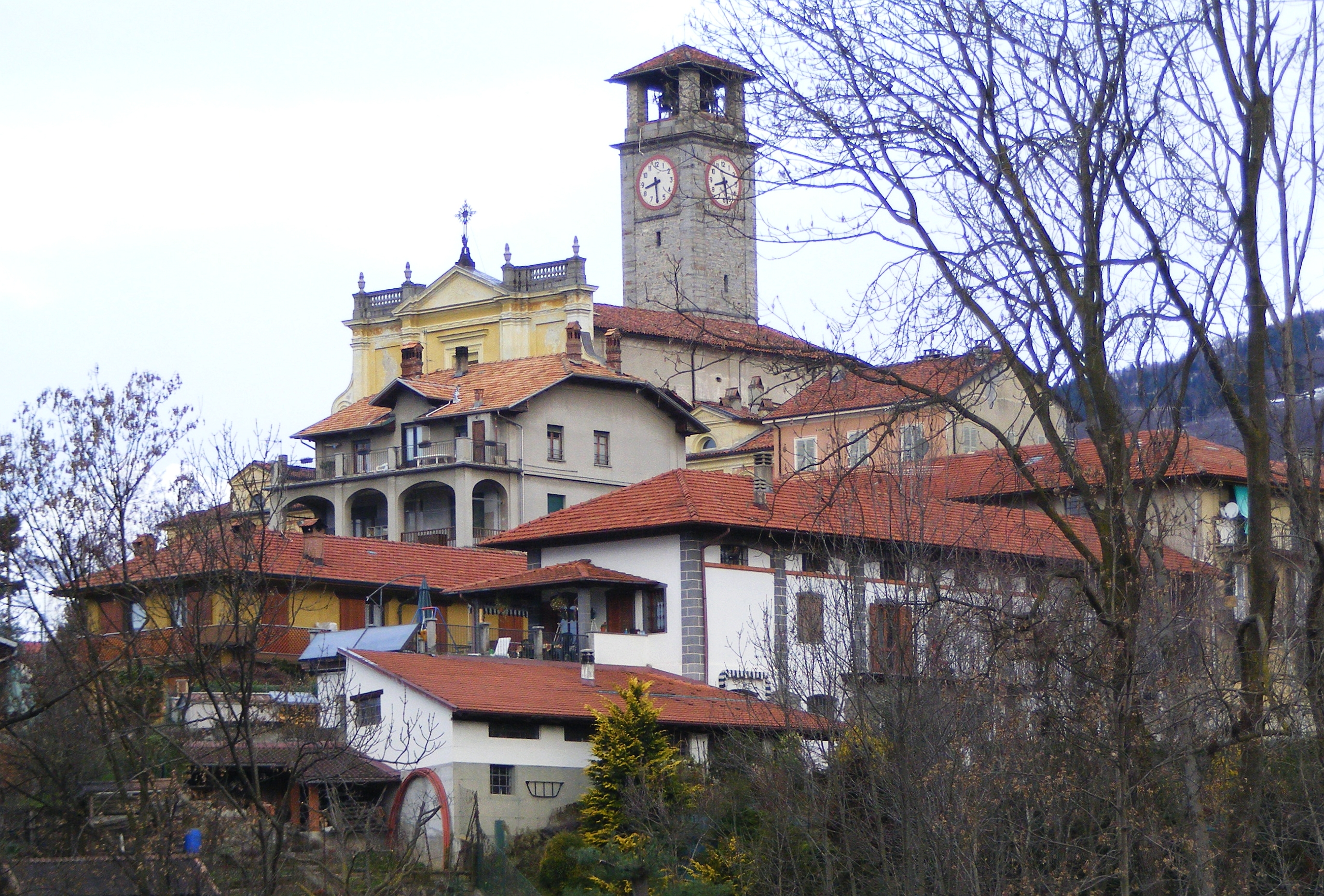 Tavigliano (BI, Italy) as viewed from frazione Causso